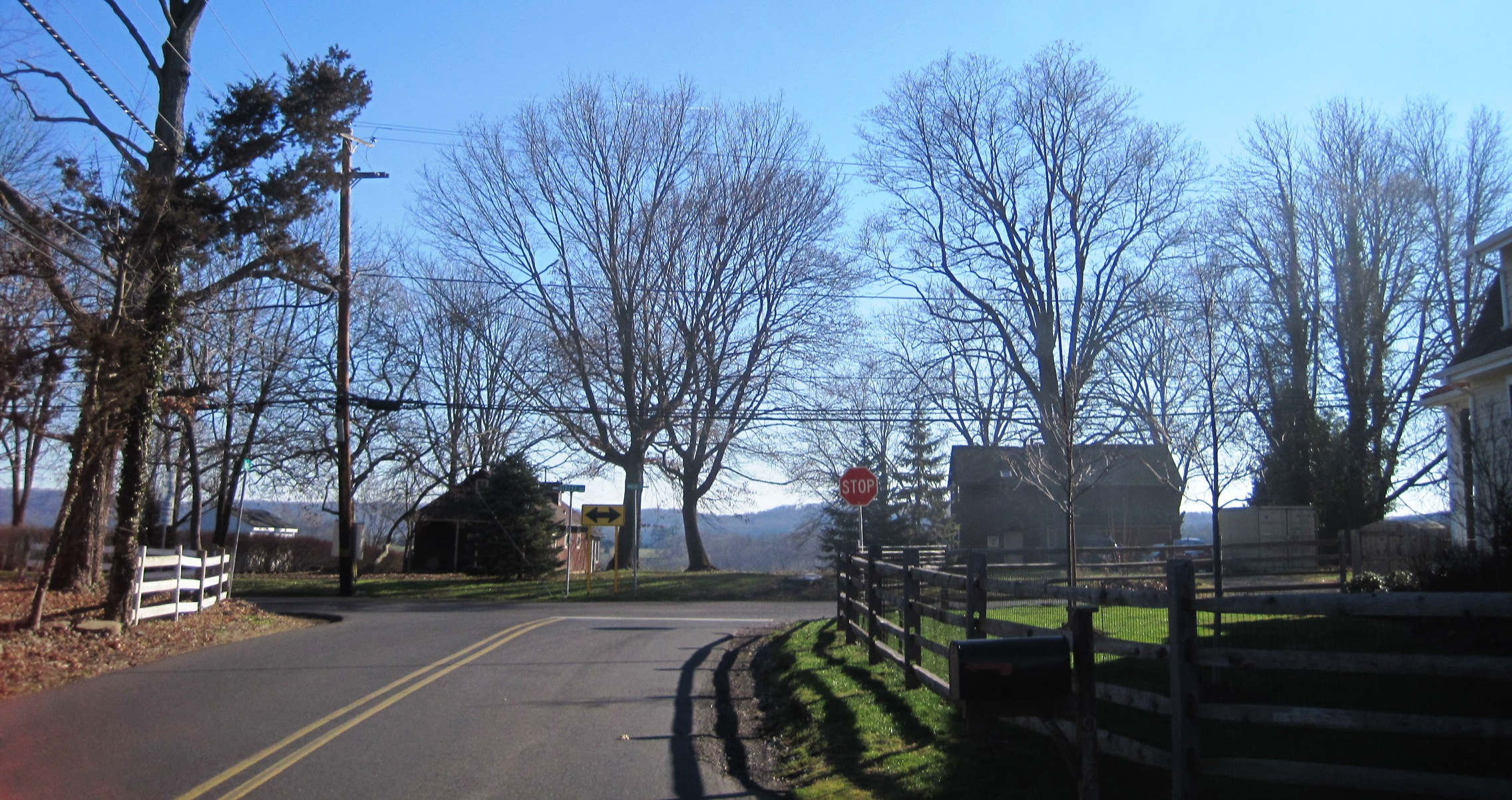 Photo of Highton, Pennsylvania, an unincorporated settlement in Buckingham and Solebury townships in Bucks County. Photo taken looking southeast along Street Road approaching Ridge Road.